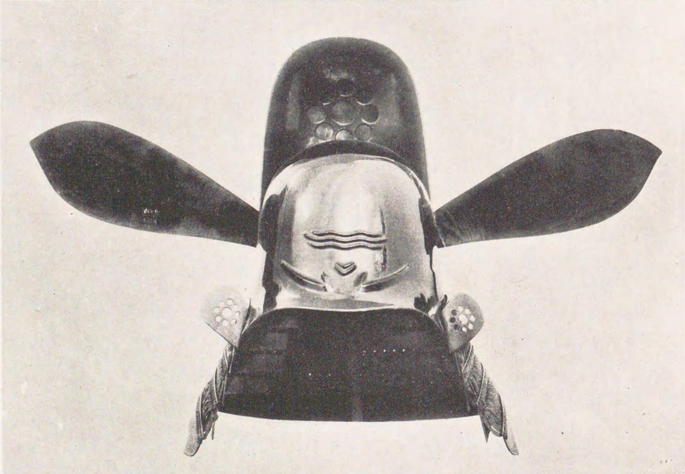 A tokan nari kabuto which Toyotomi Hideyoshi presented to Sakakibara Yasumasa.